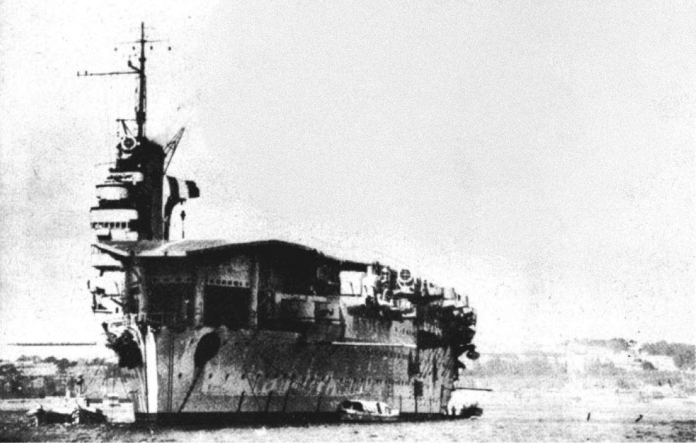 The French aircraft carrier Béarn in the 1940s.